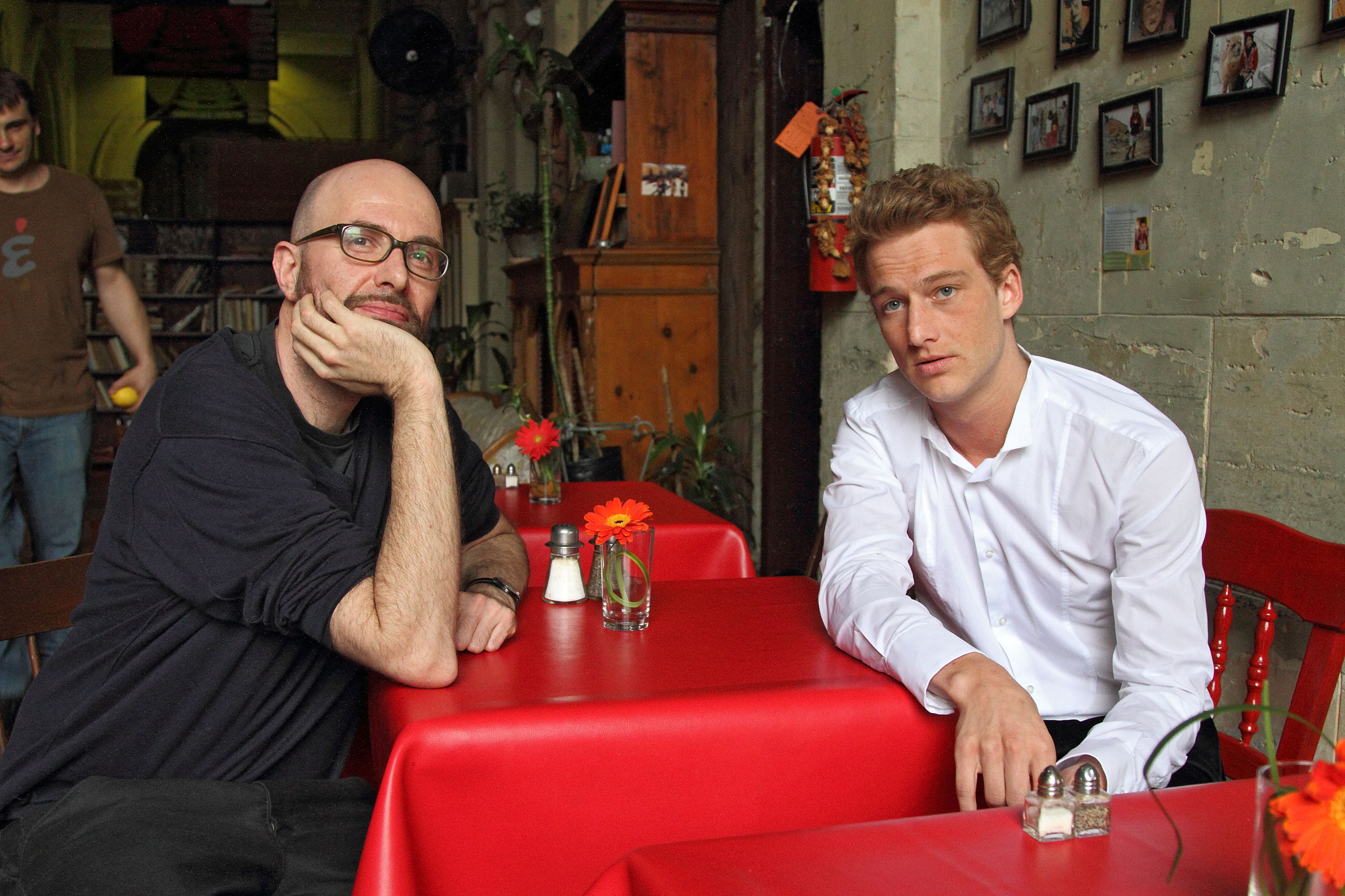 Director Philipp Stölzl & actor Alexander Fehling at the 2011 Miami International Film Festival showing of Young Goethe in Love. Reception, courtesy of German Consulate, at Soya & Pomodoro, 3-10-2011